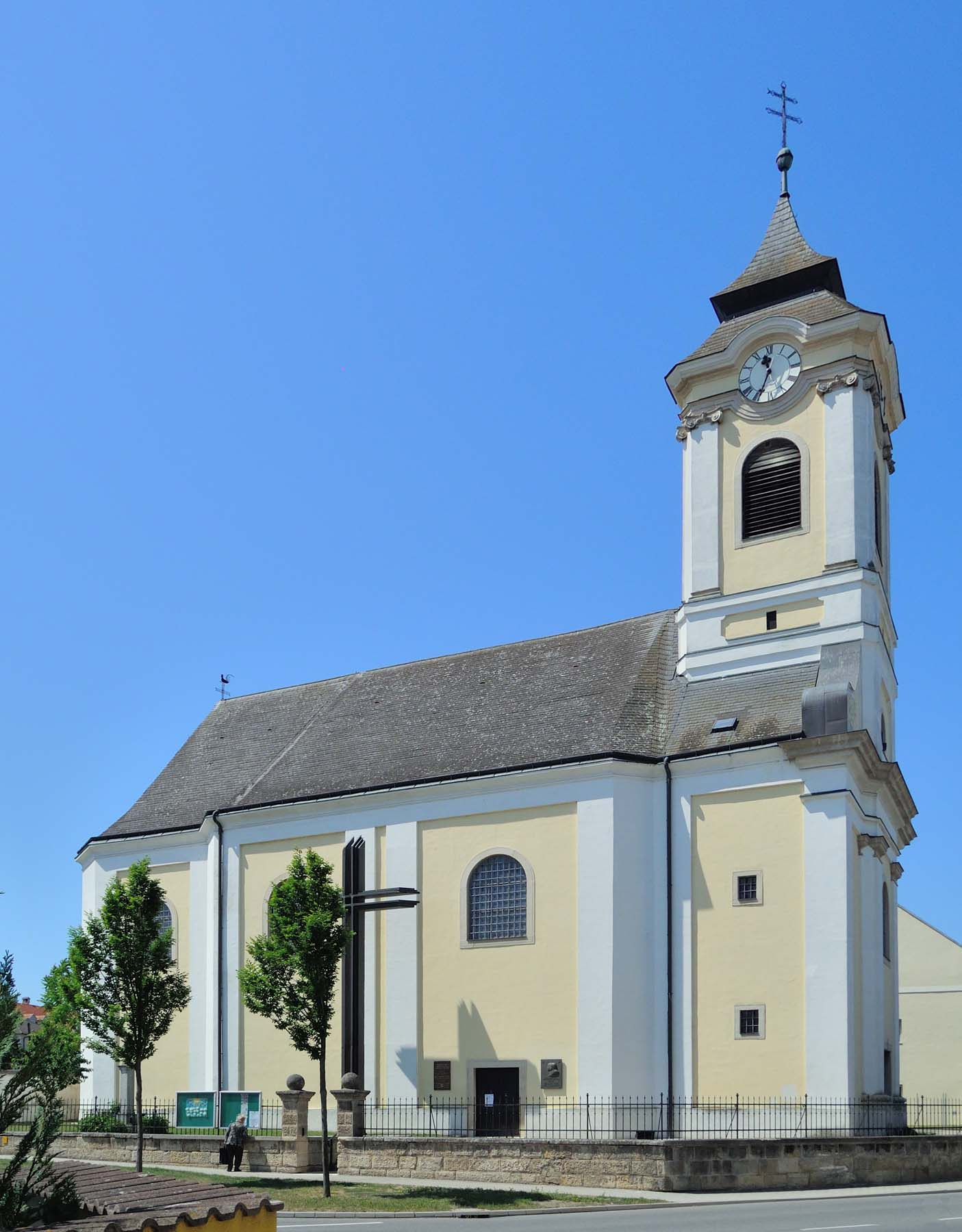 Church in Trausdorf an der Wulka, Burgenland, Austria